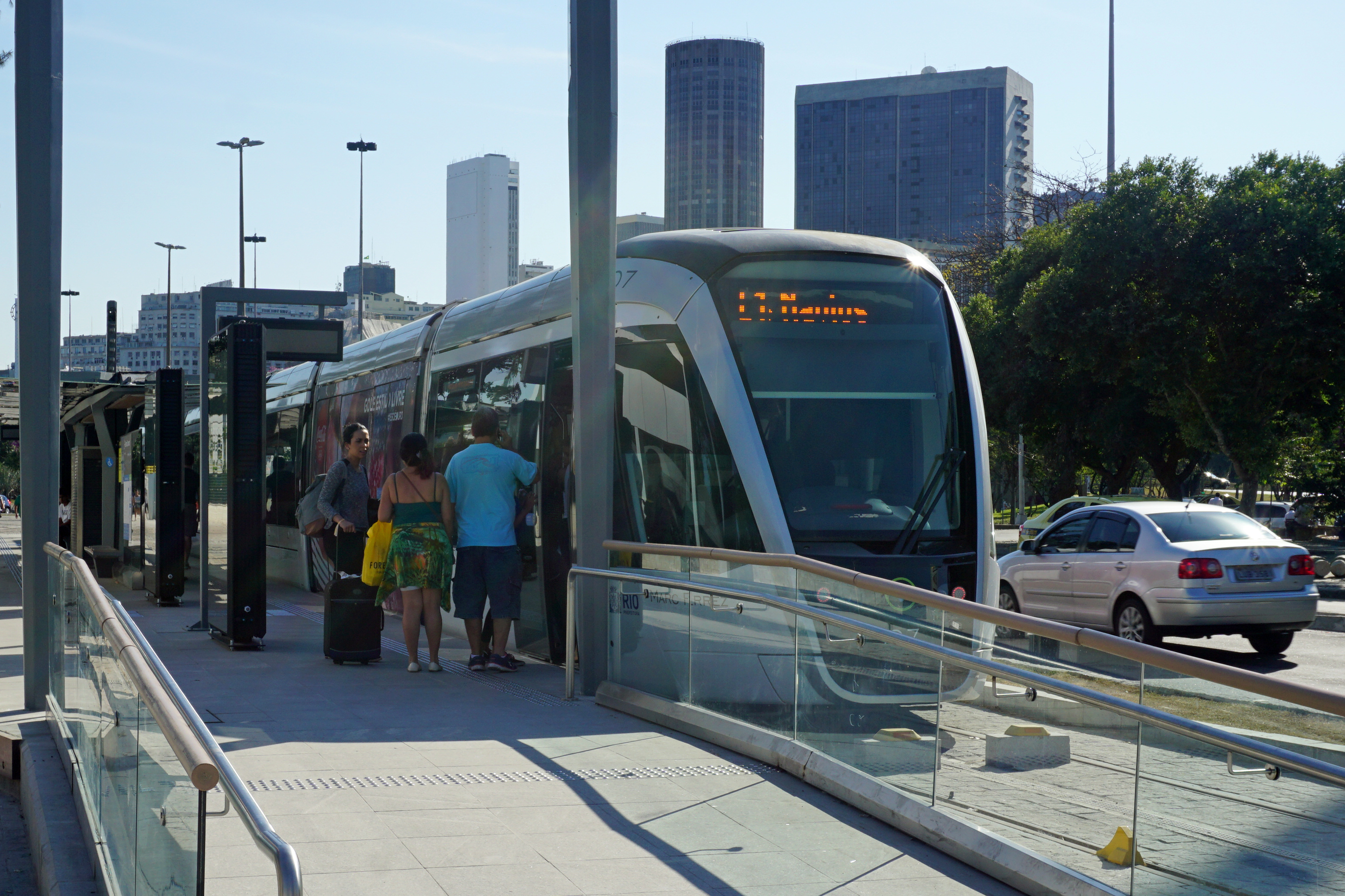 Passengers boarding the tram from VLT Rio de Janeiro, Santos Dumont Airport station.